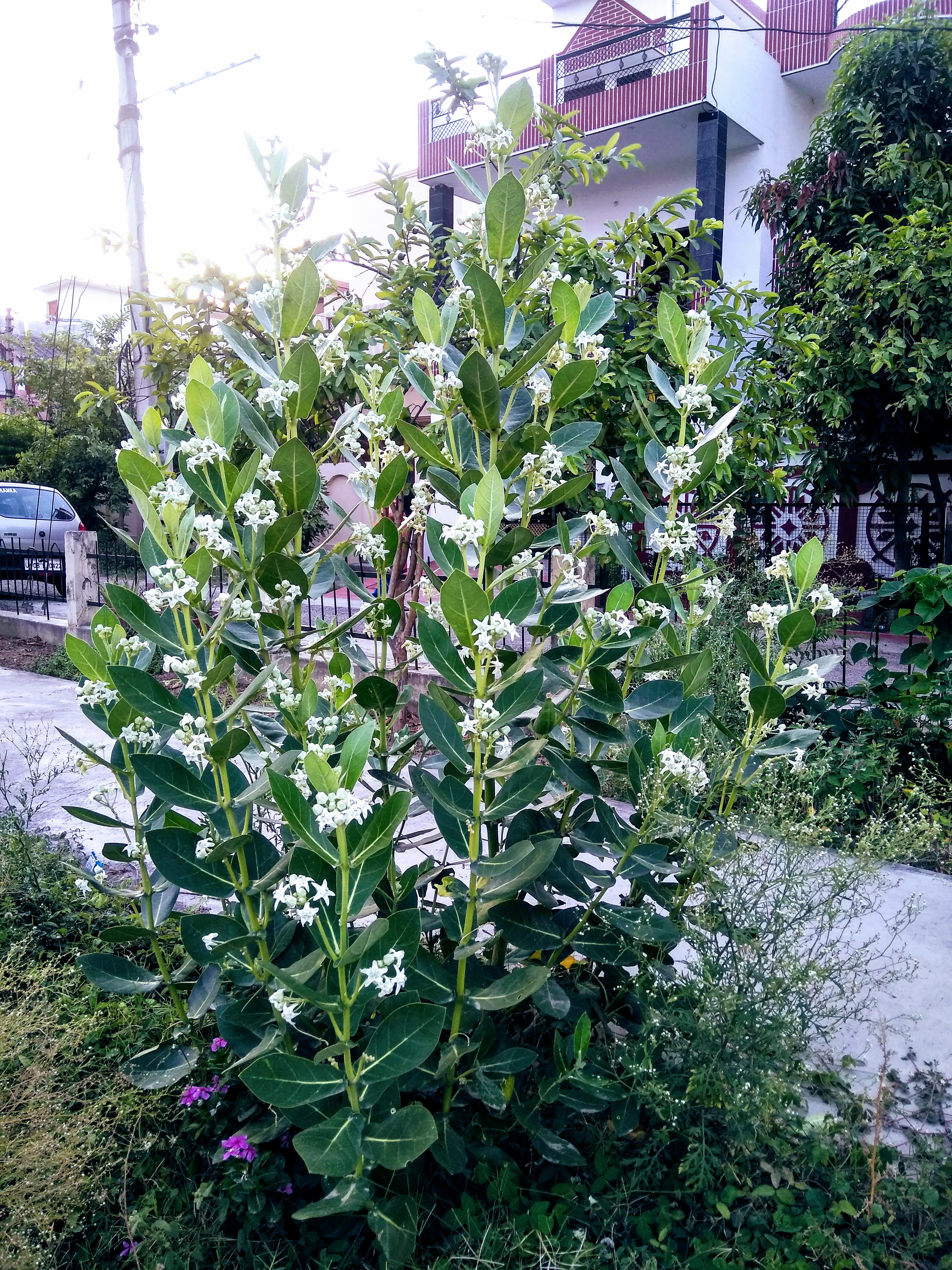 Calotropis gigantean (आँखड़े का पौधा खिले हुए फूलों के साथ)